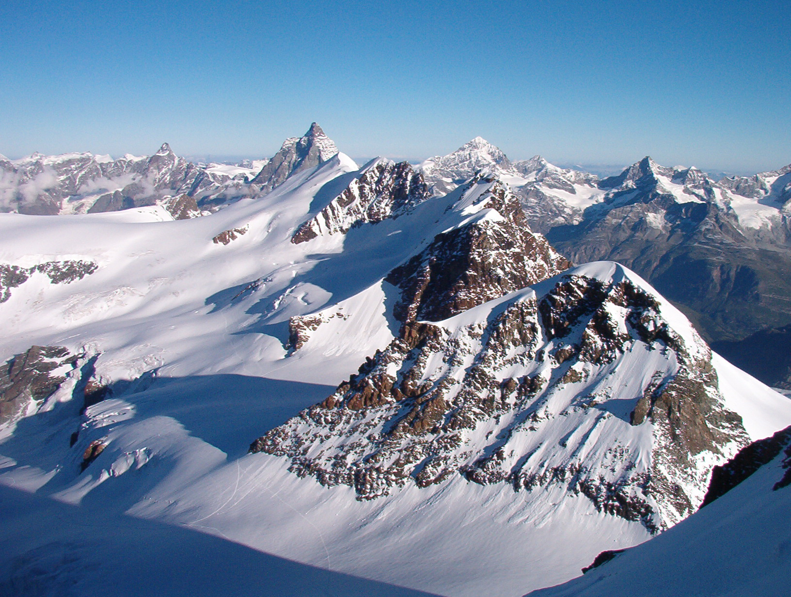 Pollux (in the foreground) taken from Castor - Pennine Alps, border between Italy and Switzerland. The long ridge towards the Matterhorn is the Breithorn with its four summits